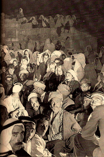 Villagers in Halhul, north of Hebron, waiting for an open-air film show. 1940